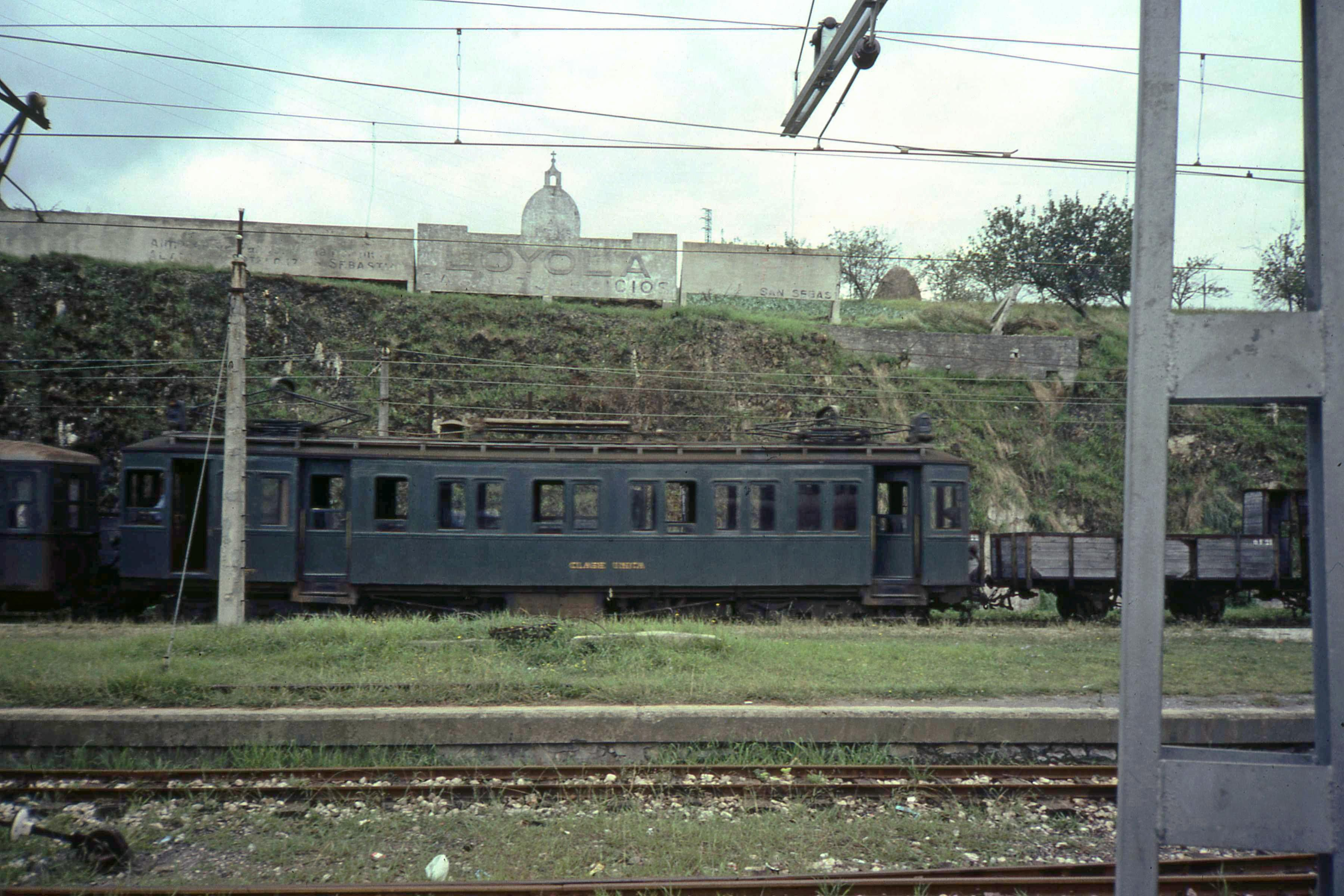 Station Zumaia of the Zumaia - Zumárraga line. (FC del Urola) Was in servive until 1986. Later a museumline was tried. Has not been part of the FEVE network and ET has never runs trains on it.